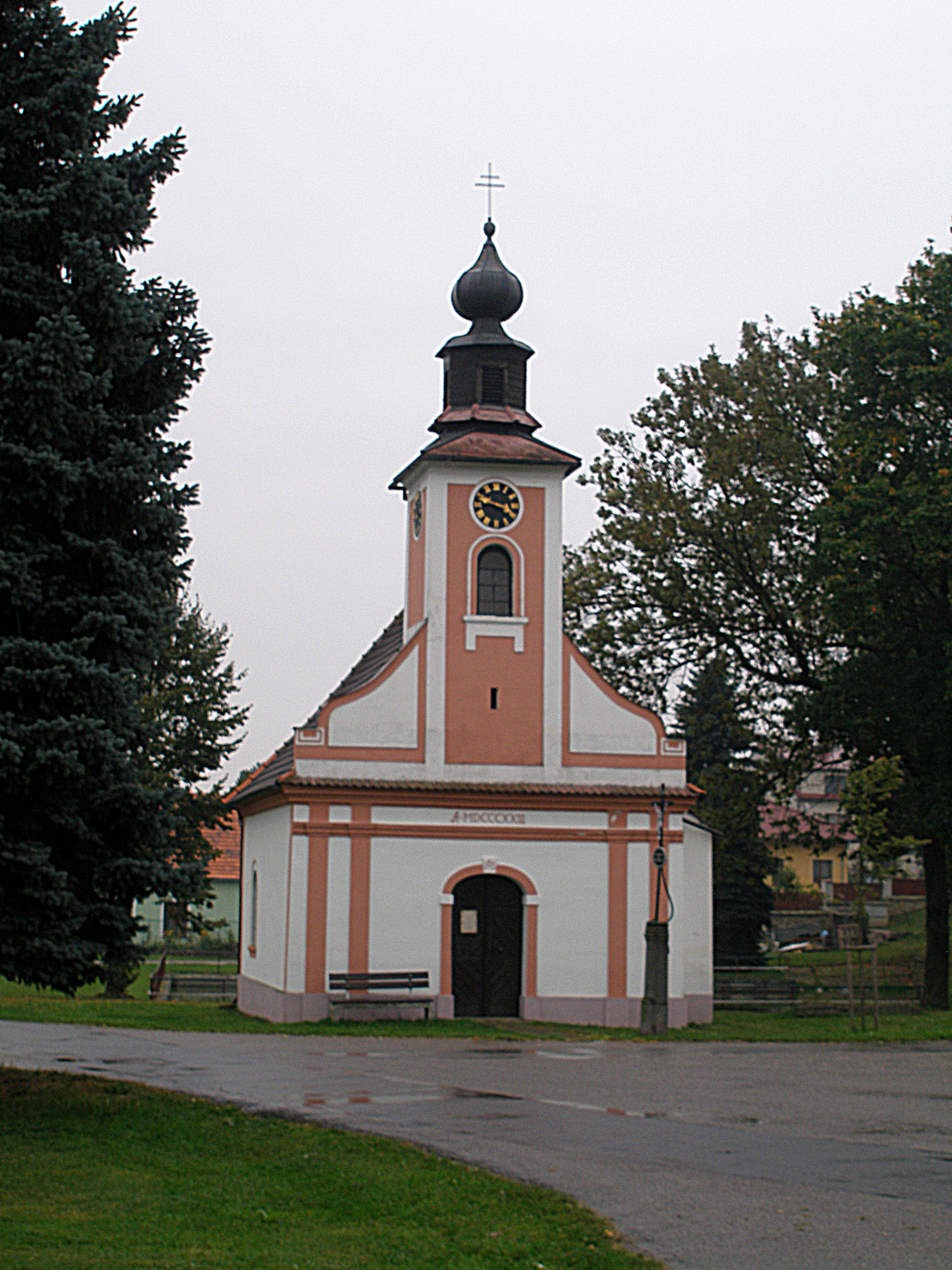 Radošovice (České Budějovice District) - the chapel on the square